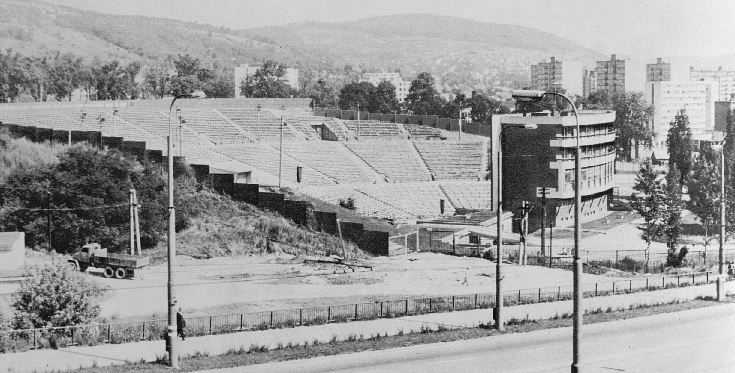 Amfiteáter 1975